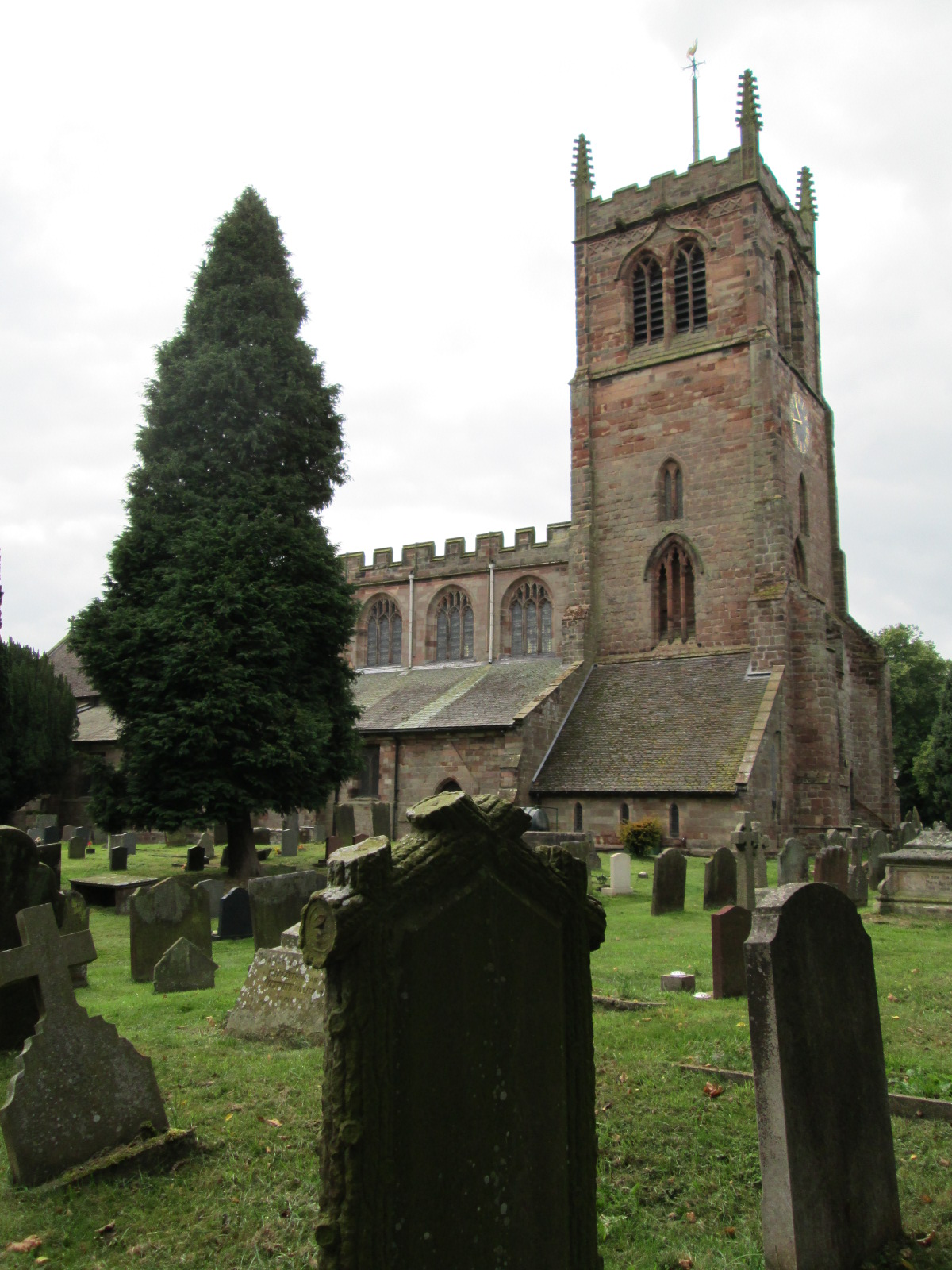 Holy Trinity Church, Eccleshall, seen from the north.